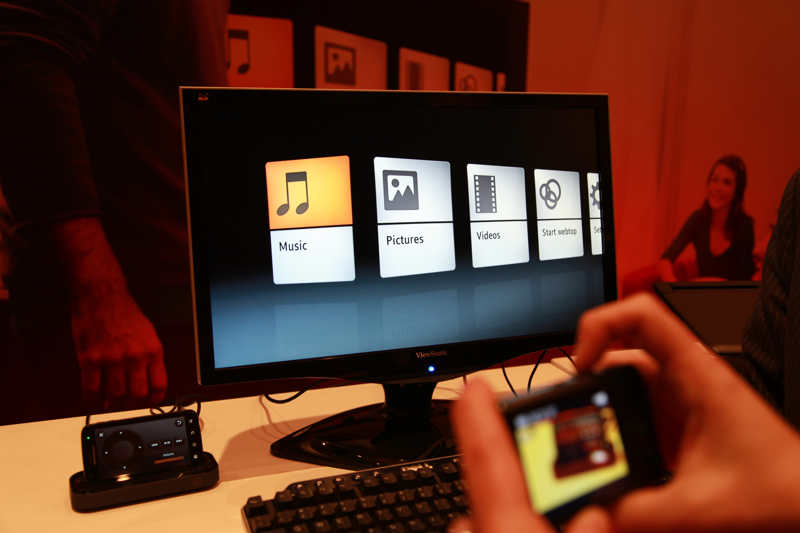 The Motorola Atrix 4G accessories "HD Multimedia Dock" in action at CES 2011. On Screen: The Entertainment Mode.